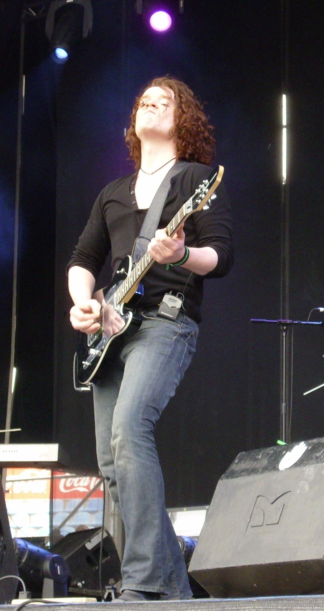 Live Festimad 2007 , 8 June 2007